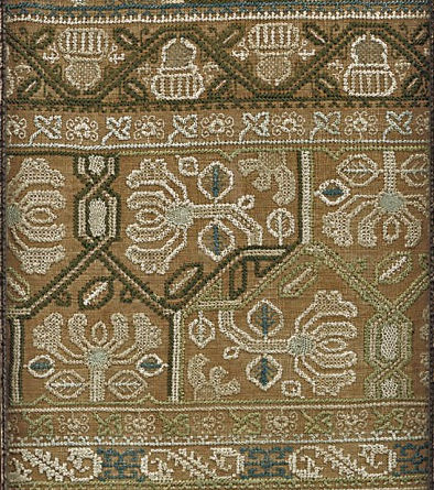 Detail of needlework band sampler, c. 1660, buff coloured linen worked with an alphabet and endless knot details